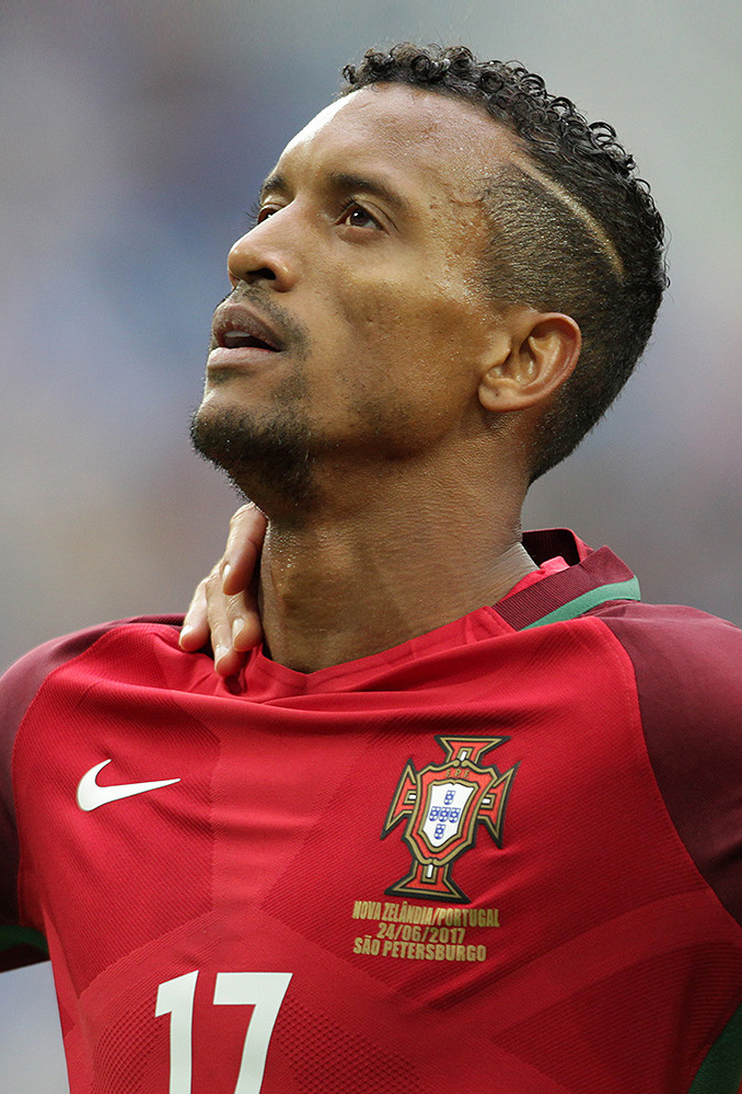 New Zealand VS. Portugal 0 - 4, 24 June 2017